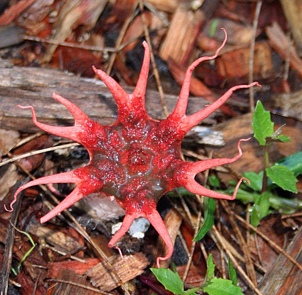 Aseroe rubra, woodchips, Bomaderry Creek NSW